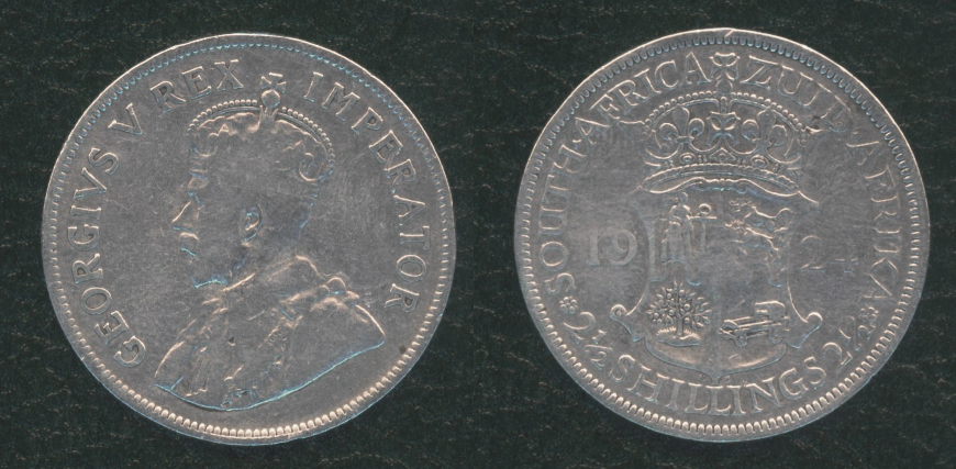 2.5 Shilling coin (silver) of the South African Pound